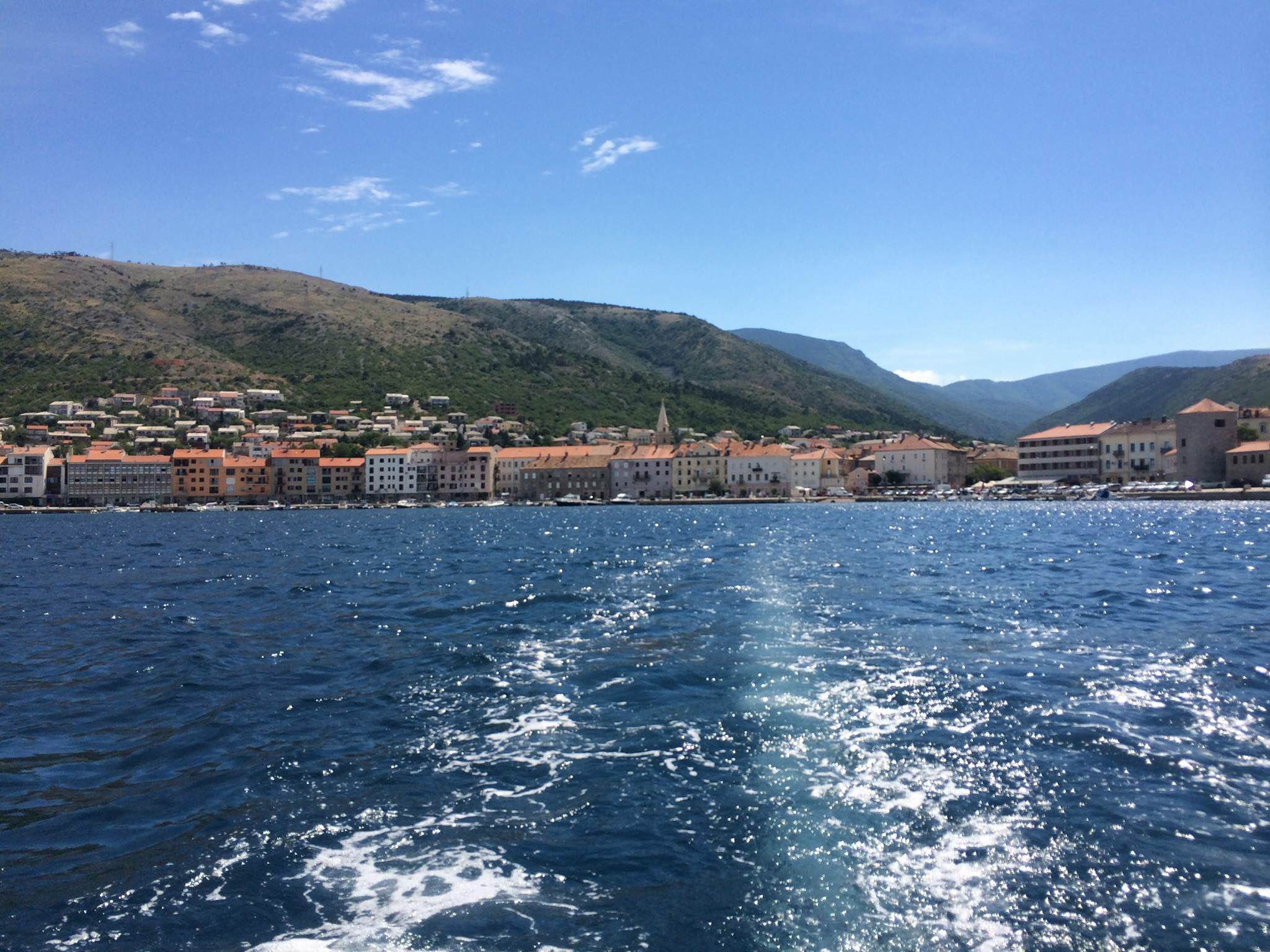 A view of Senj from the sea. Summer 2015